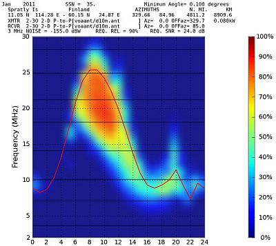 VOACAP HF propagation p2p